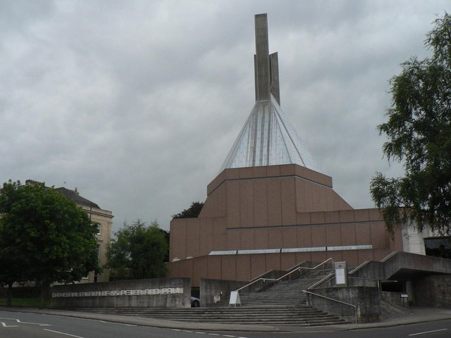 Clifton: Catholic cathedral church of Ss. Peter & Paul One of Britain's more modern cathedrals, Clifton's was built in the early 1970s.